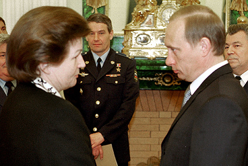 The KREMLIN, MOSCOW. A meeting with the leaders of the Russian space industry and cosmonauts, including the first woman in space, Valentina Tereshkova.